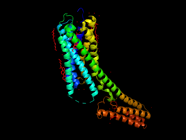 This file represents a cartoon representation of the structure of P2Y12 protein